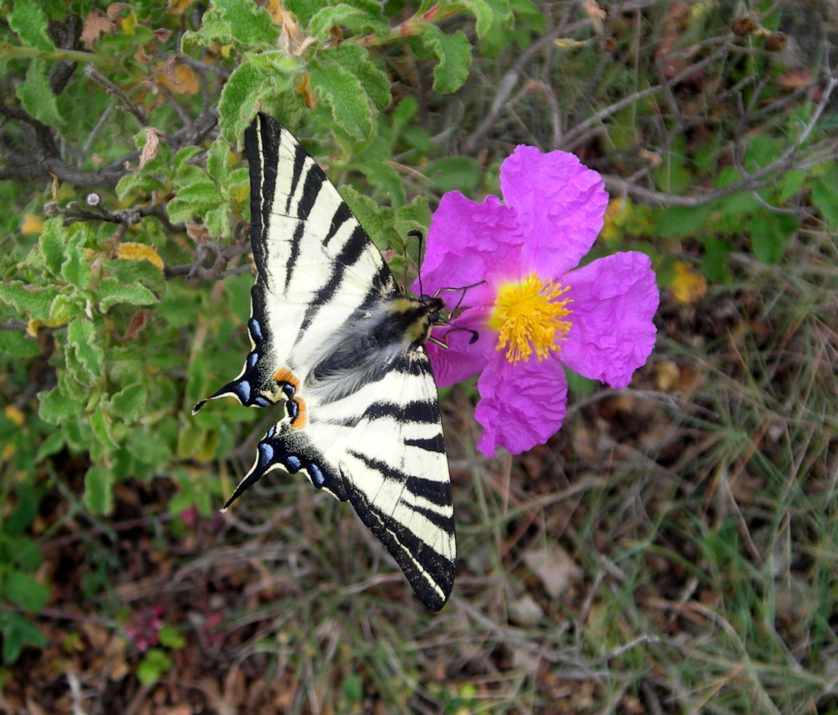 This is a photography of Natura 2000 protected area with ID GR4320002